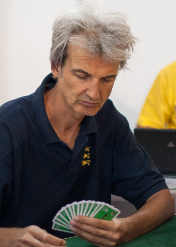 England Andrew Robson